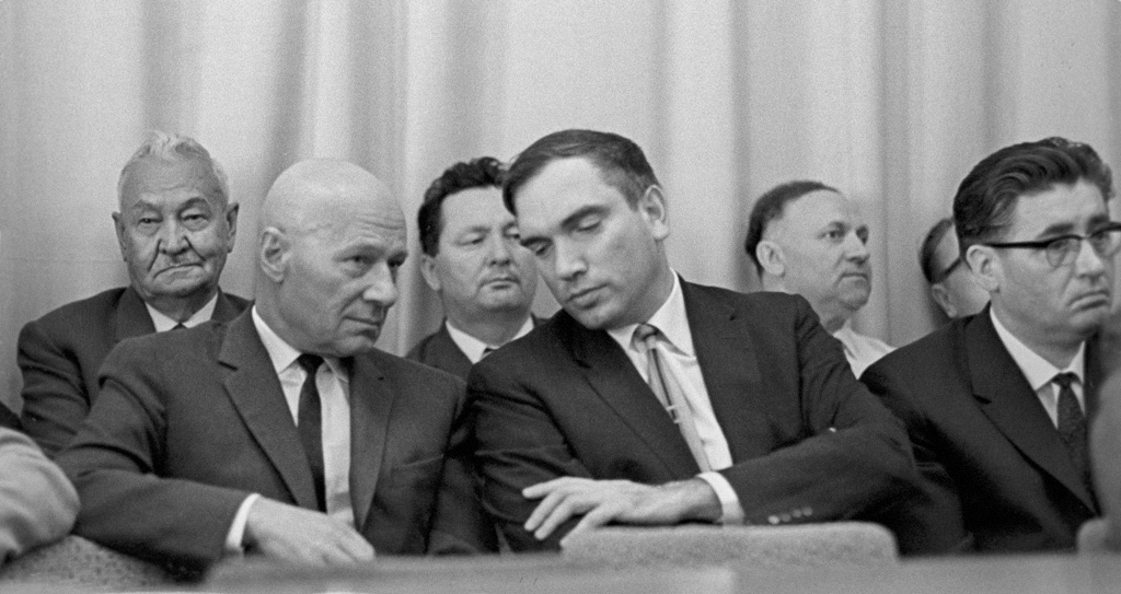 “Writer Nikolai Gribachev and political analyst Enver Mamedov”. Writer Nikolai Gribachev, left, and political analyst Enver Mamedov, center, at a conference of foreign representatives and personal correspondents of the Novosti Press Agency (APN).